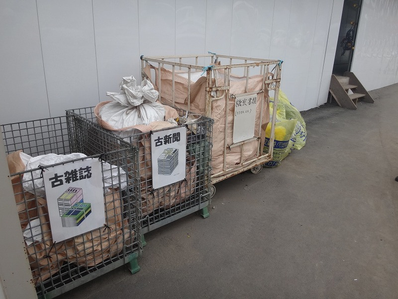 2015-09-03 CLP in Japan Toyosu Project